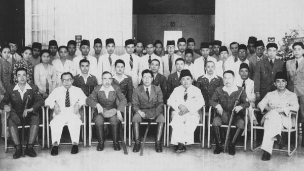 Indonesian nationalists (e.g. Hatta) and Japanese Army officers in WW II.